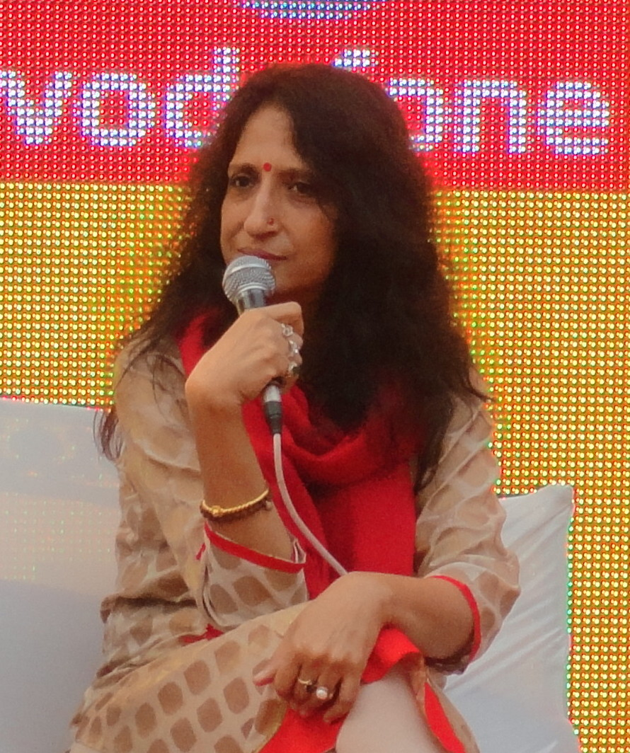 Kajal Oza Vaidhya